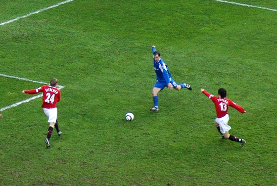 Stephen Clemence. Image cropped from original at Flickr.